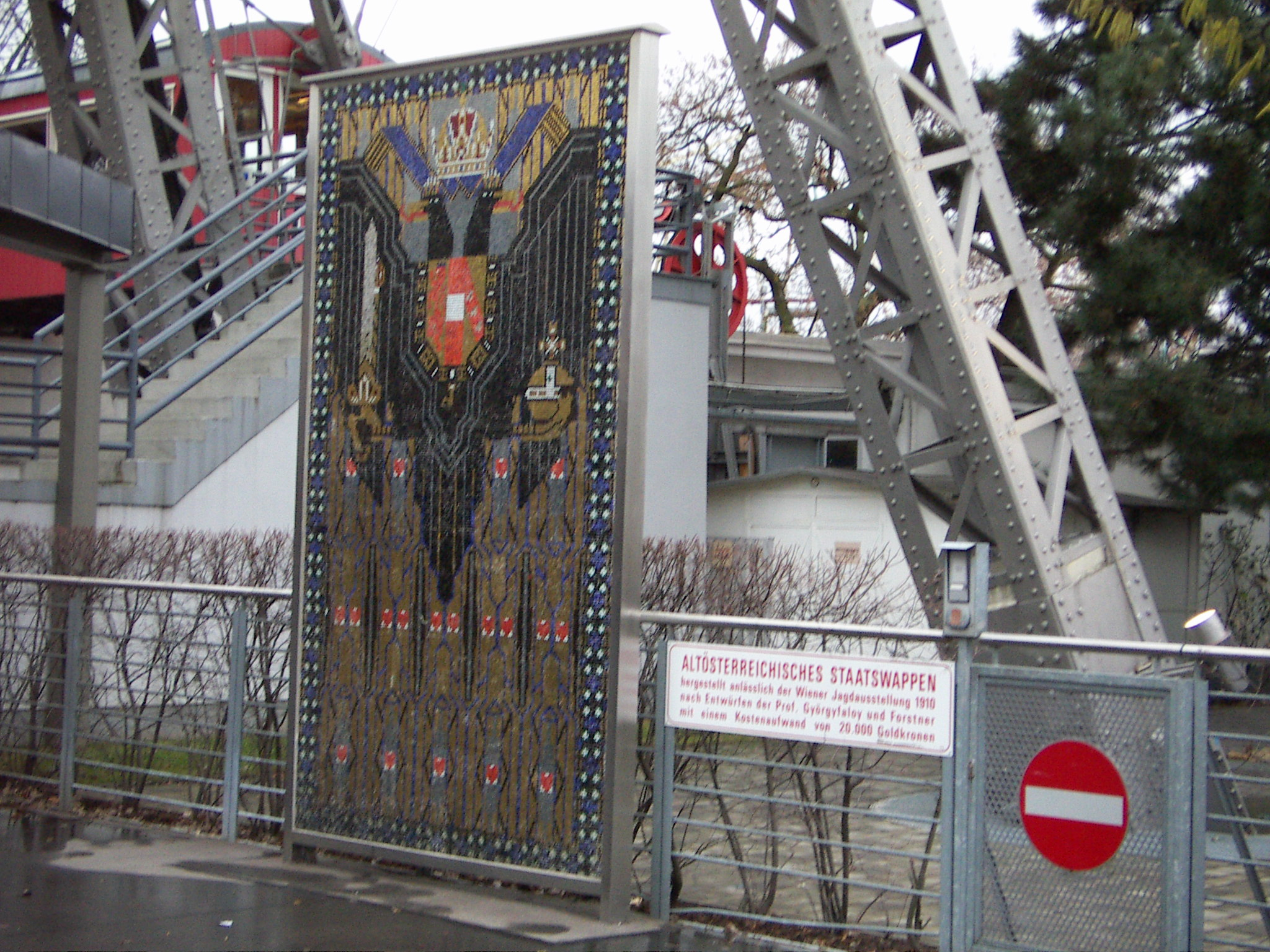 Austria, Vienna, Prater, Wiener Riesenrad